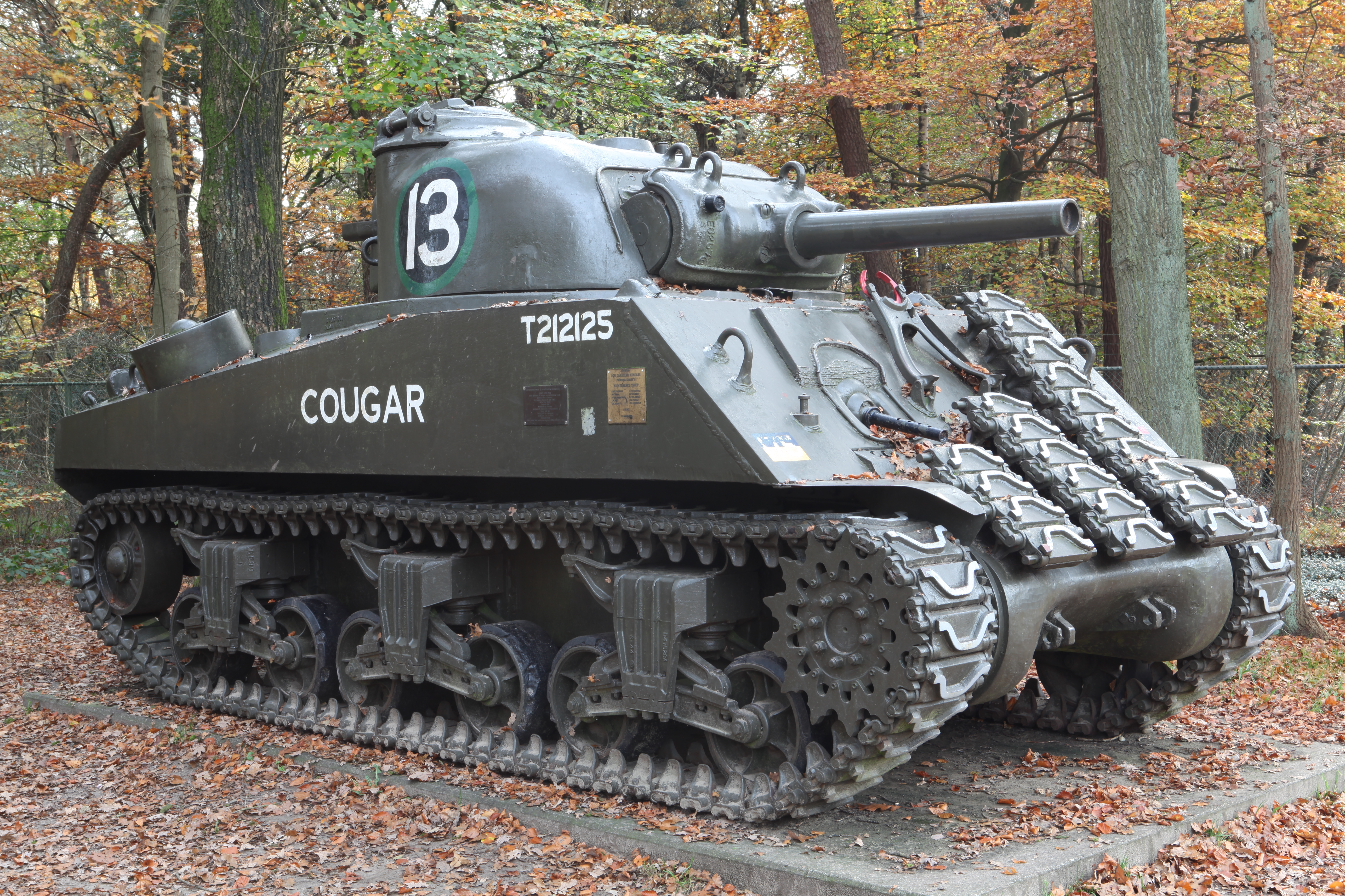 M4 Sherman tank Cougar, Arnhemseweg 120 6711GP Ede NL